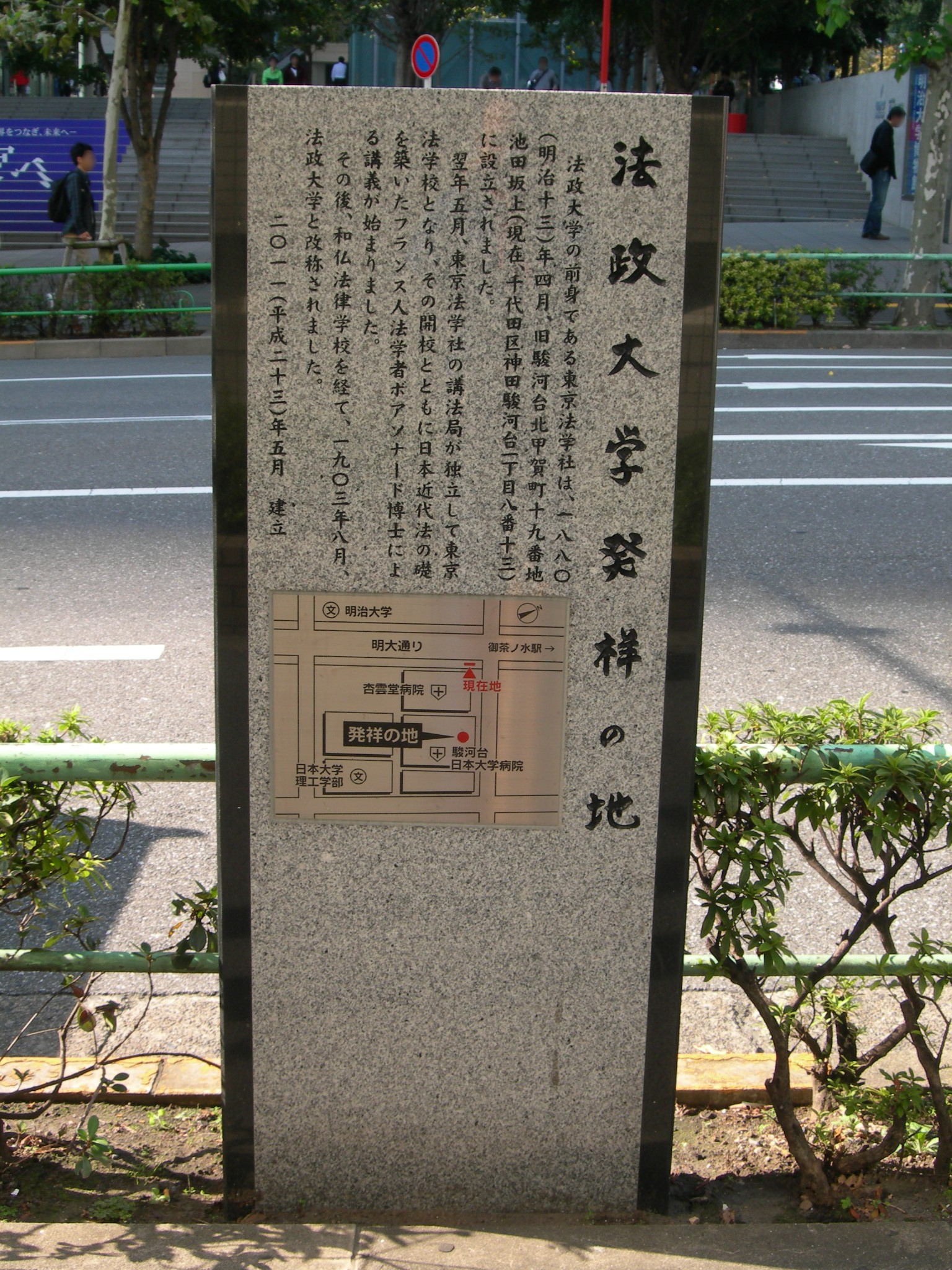 Stele of Hosei University Birthplace, Surugadai, Chiyoda, Tokyo.